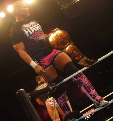 Tyson Champ